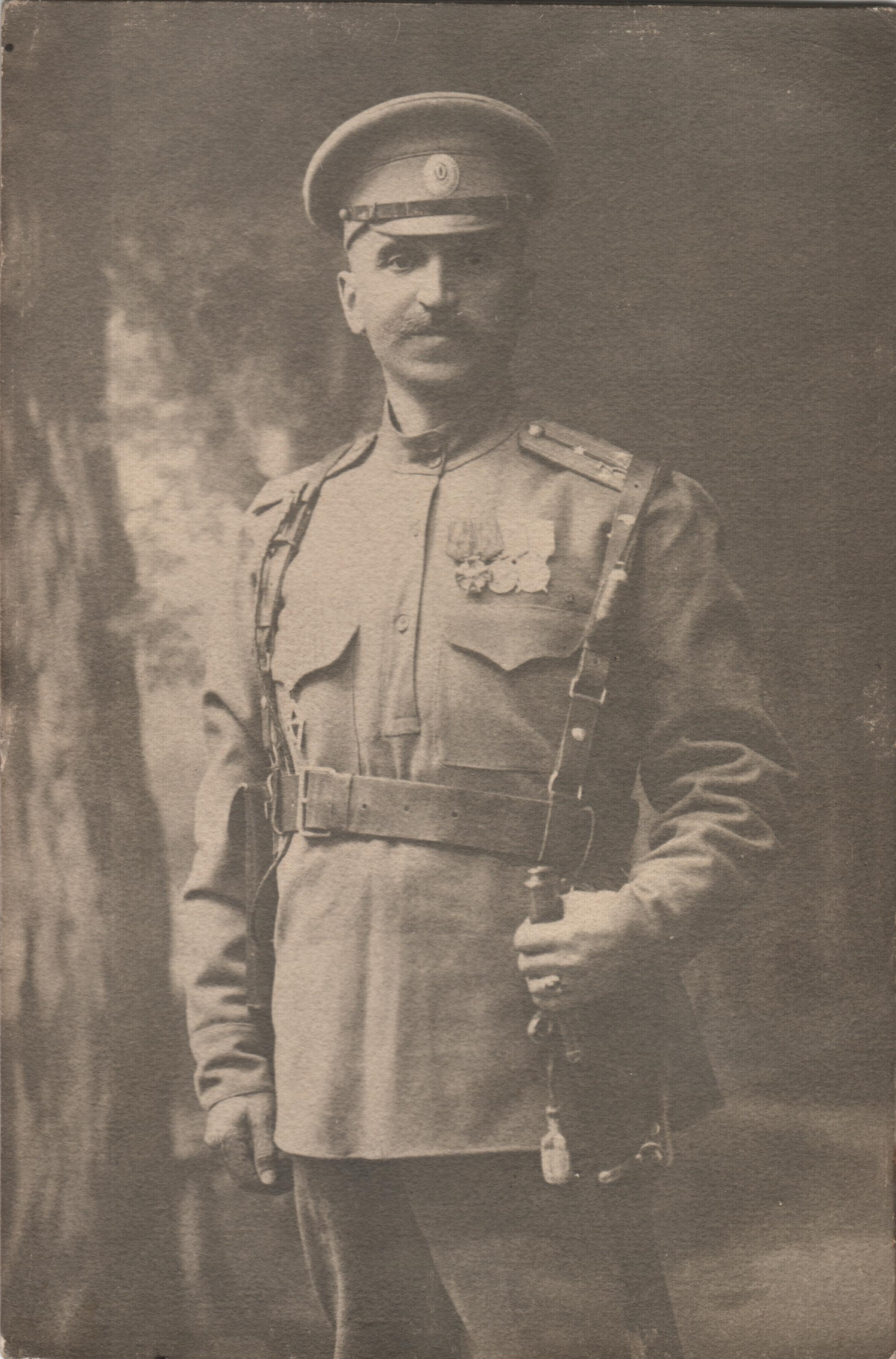 Georgi Kapchev Bulgarian publicist as Russian officer